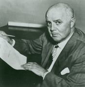 Former United States Representative from New Jersey John Parnell Thomas.